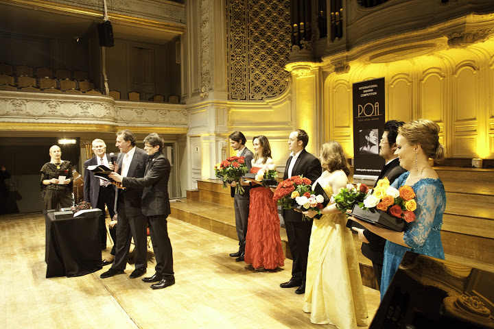 Prizes award ceremony (part II)